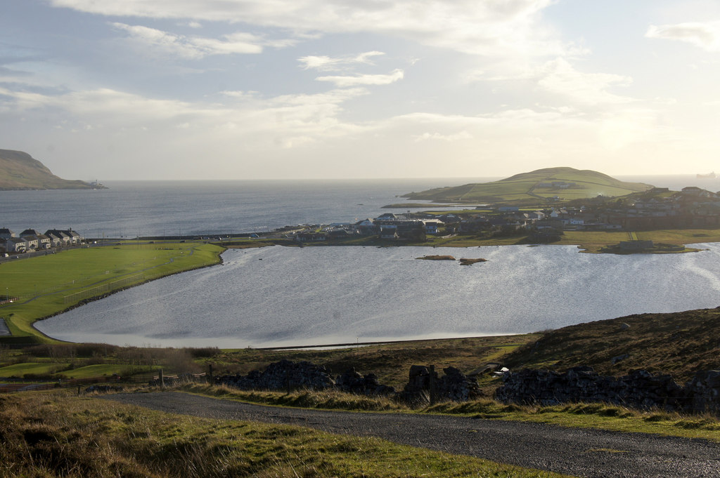 Loch of Clickimin from the Old North Road, Lerwick